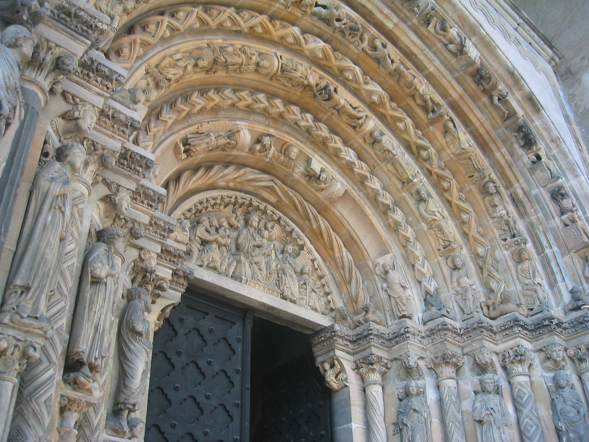 Freiberg Cathedral (in Saxony, Germany): Detail from the Golden Portal.